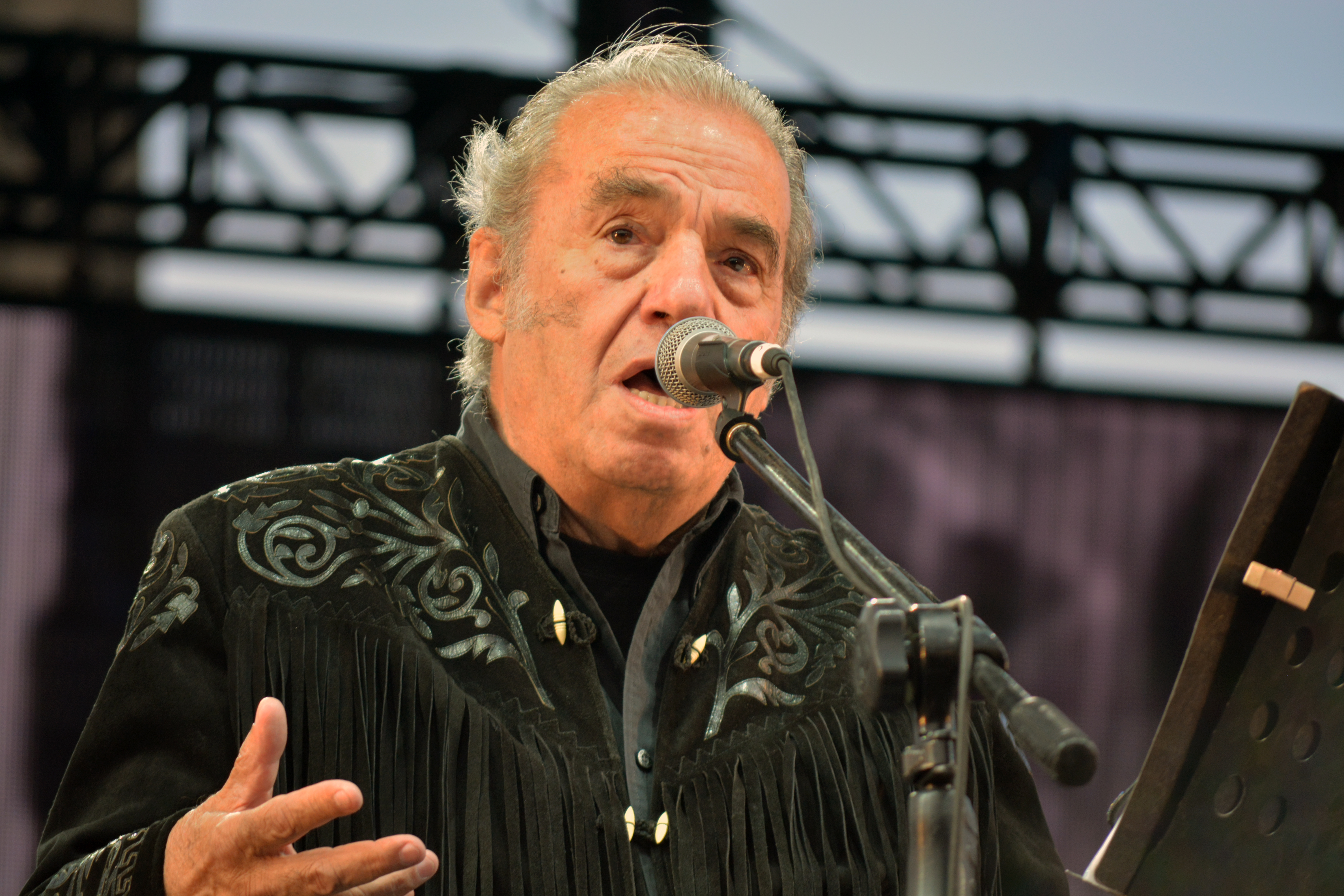 Mexican composer Óscar Chávez at a concert in Mexico City's Zocalo celebrating 81 years of life and 50 years of artistic life.